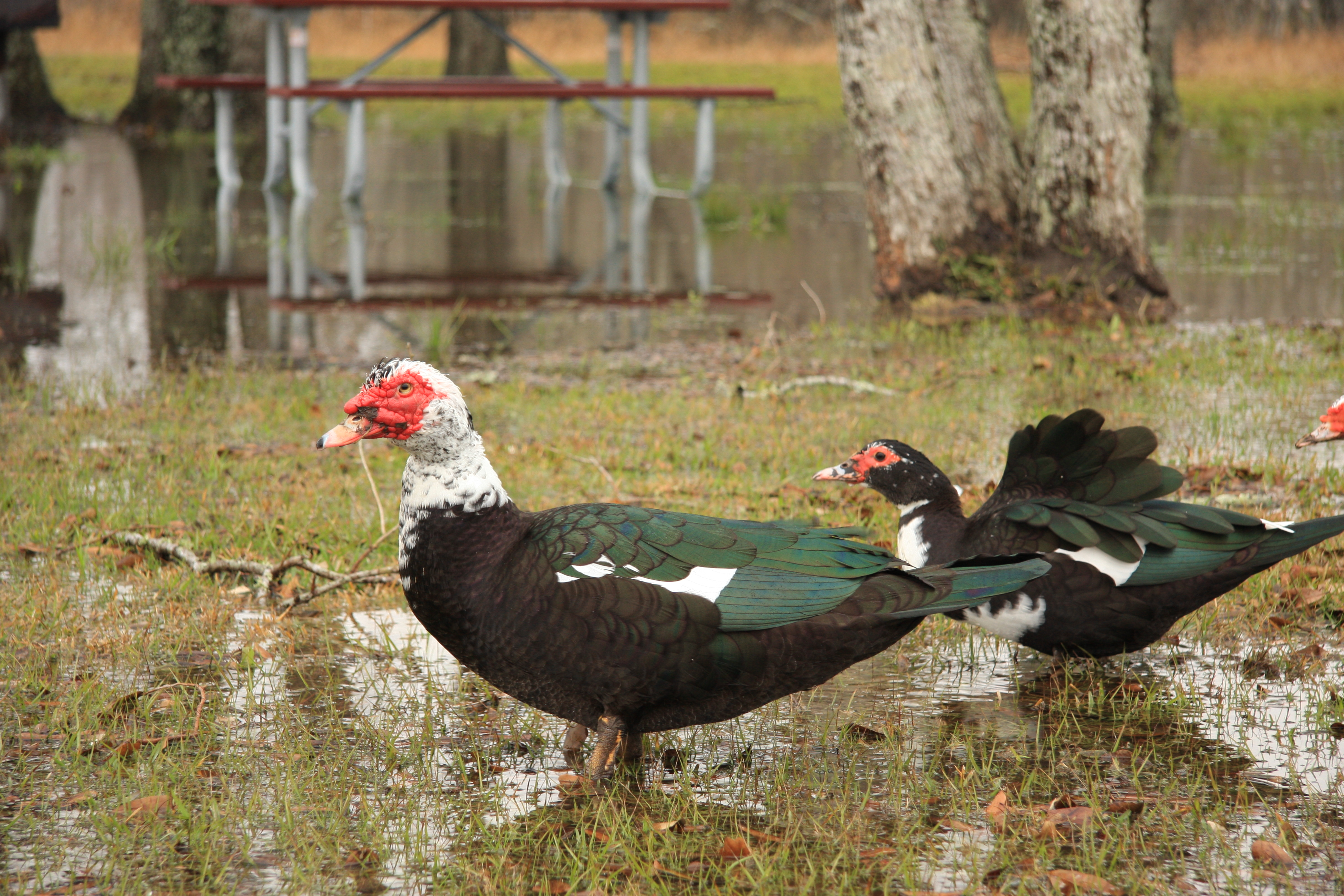 A Cairina moschata in Texas -USA.